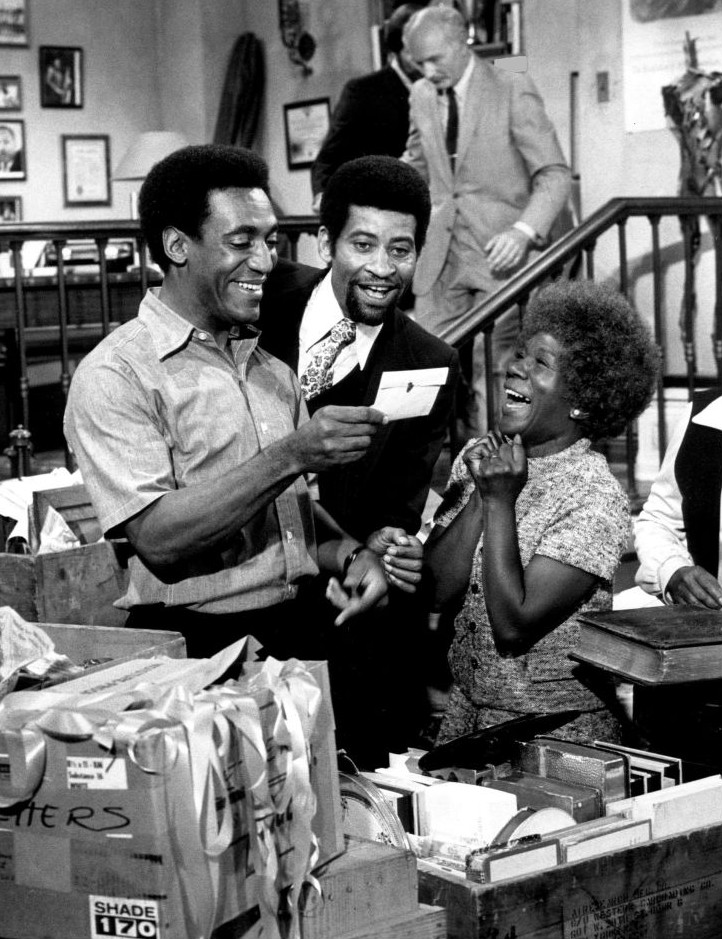 Bill Cosby (1937–) Alternative names William Henry Cosby, Jr.DescriptionAmerican performance artist, writer, author and activistDate of birth 12 July 1937 Location of birth Philadelphia, Pennsylvania Work period1962-presentWork location United States of AmericaAuthority control : Q213512 VIAF: 110901829 ISNI: 0000 0001 0788 0184 LCCN: n82052577 NAID: 10570342 NLA: 35432033 WorldCat creator QS:P170,Q213512 Photo of Bill Cosby as Chet Kincaid with Rupert Crosse and Beah Richards from the television program The Bill Cosby Show.